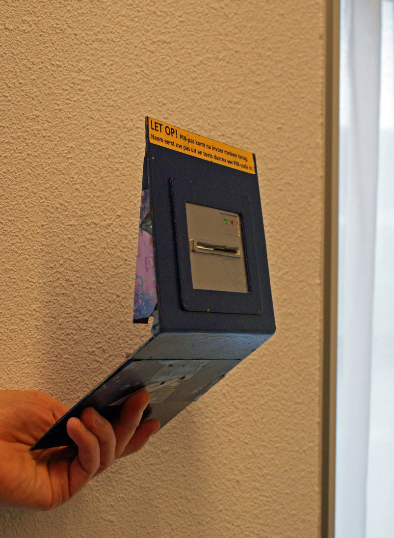 Example of a card skimming device